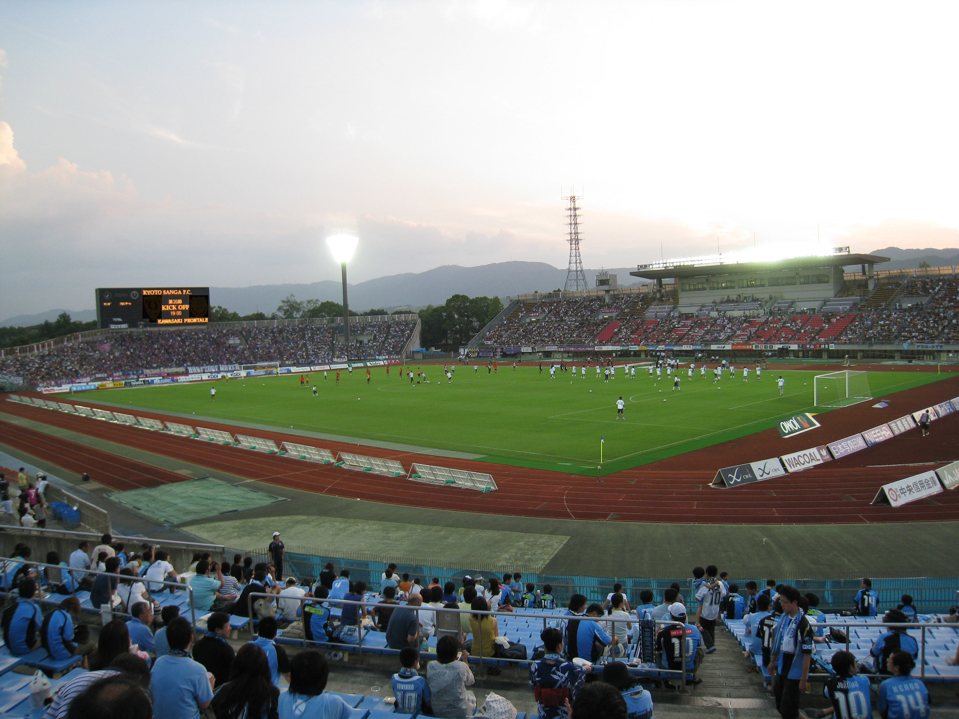 Nishikyogoku Stadium. Kyoto-Pref,Japan